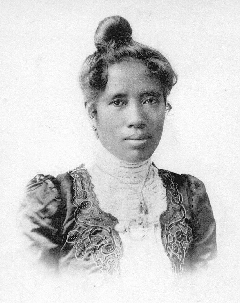 Ranavalona III of Madagascar (1861-1917), before 1900